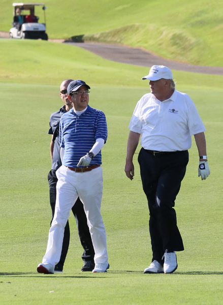 Prime Minister Shinzō Abe and President Donald Trump playing golf.